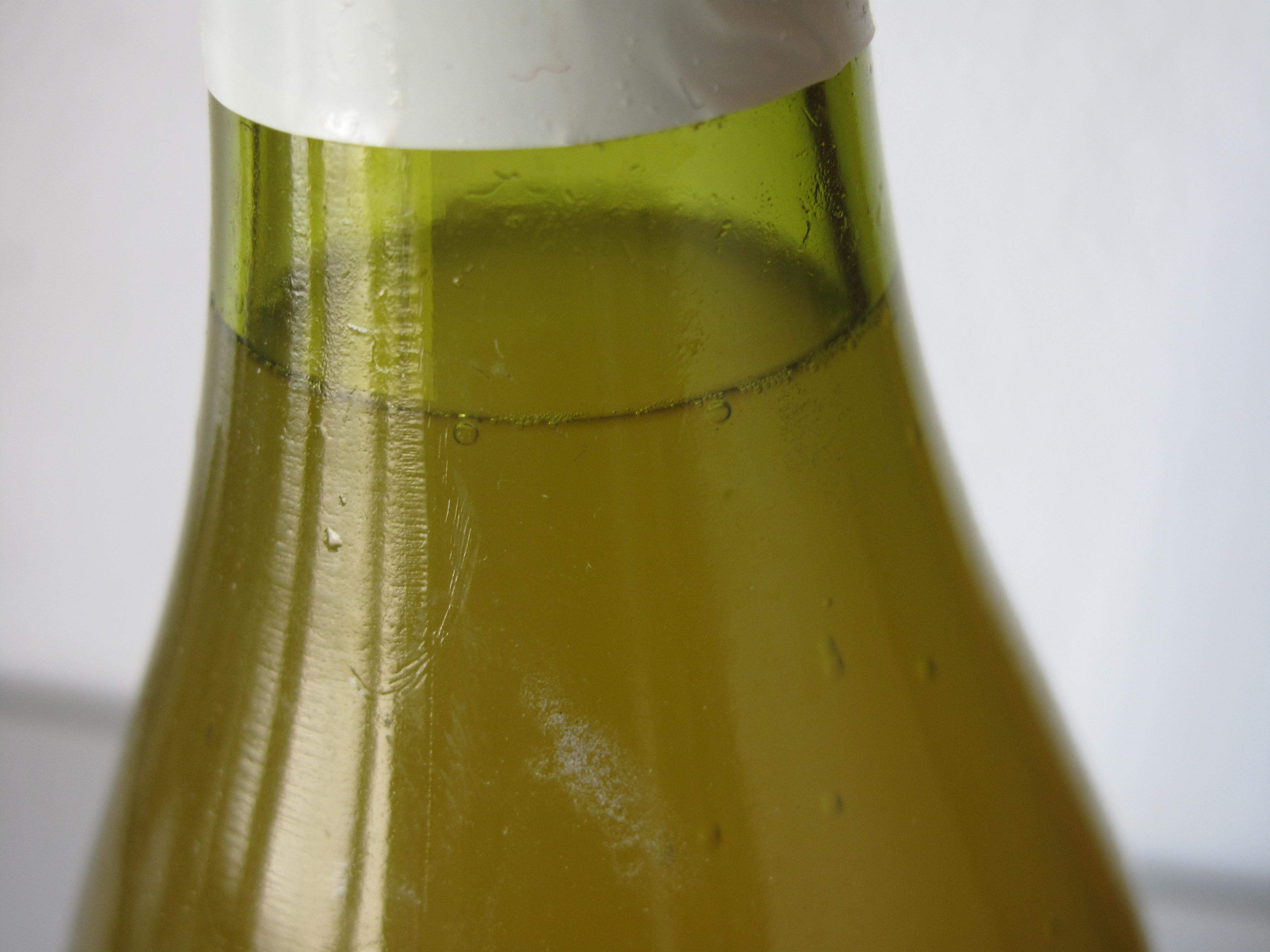 Closeup of a bottle of "vin bourru" bought in a market of Haute-Savoie (France) and showing the bubbles of the fermentation.